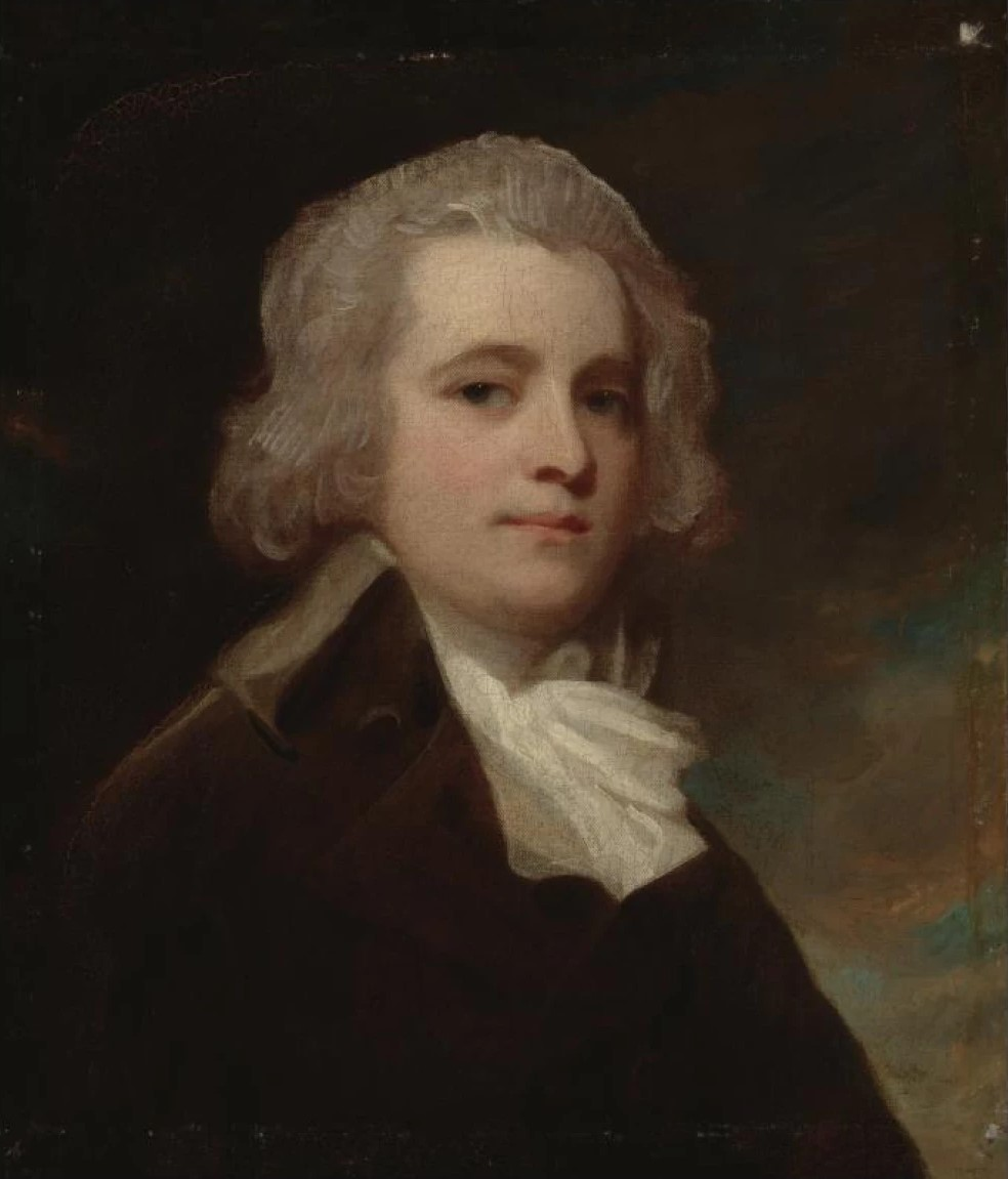 John Bridgeman Simpson oil on canvas 59 x 51 cm